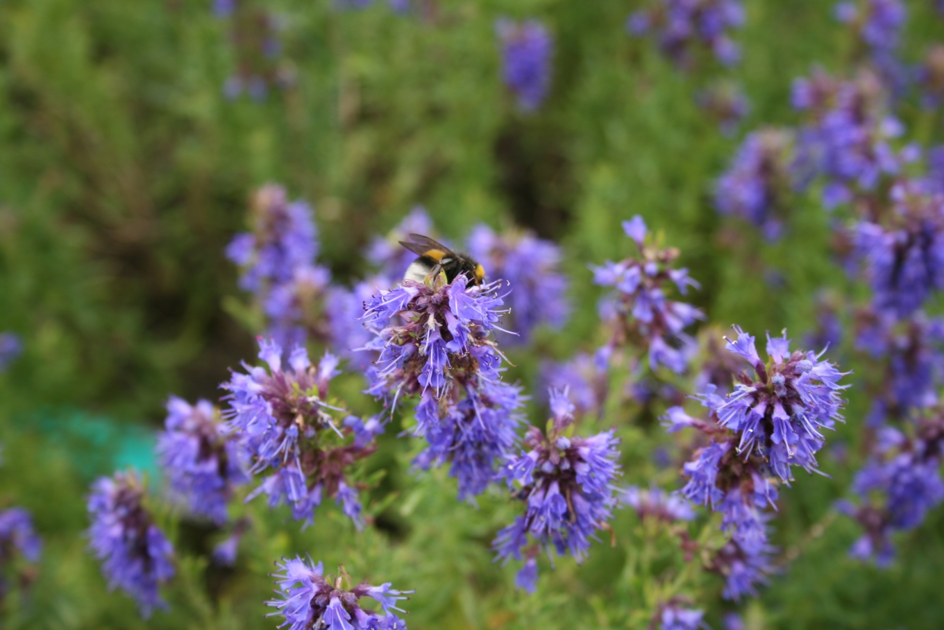 Hyssopus officinalis: Flowers.